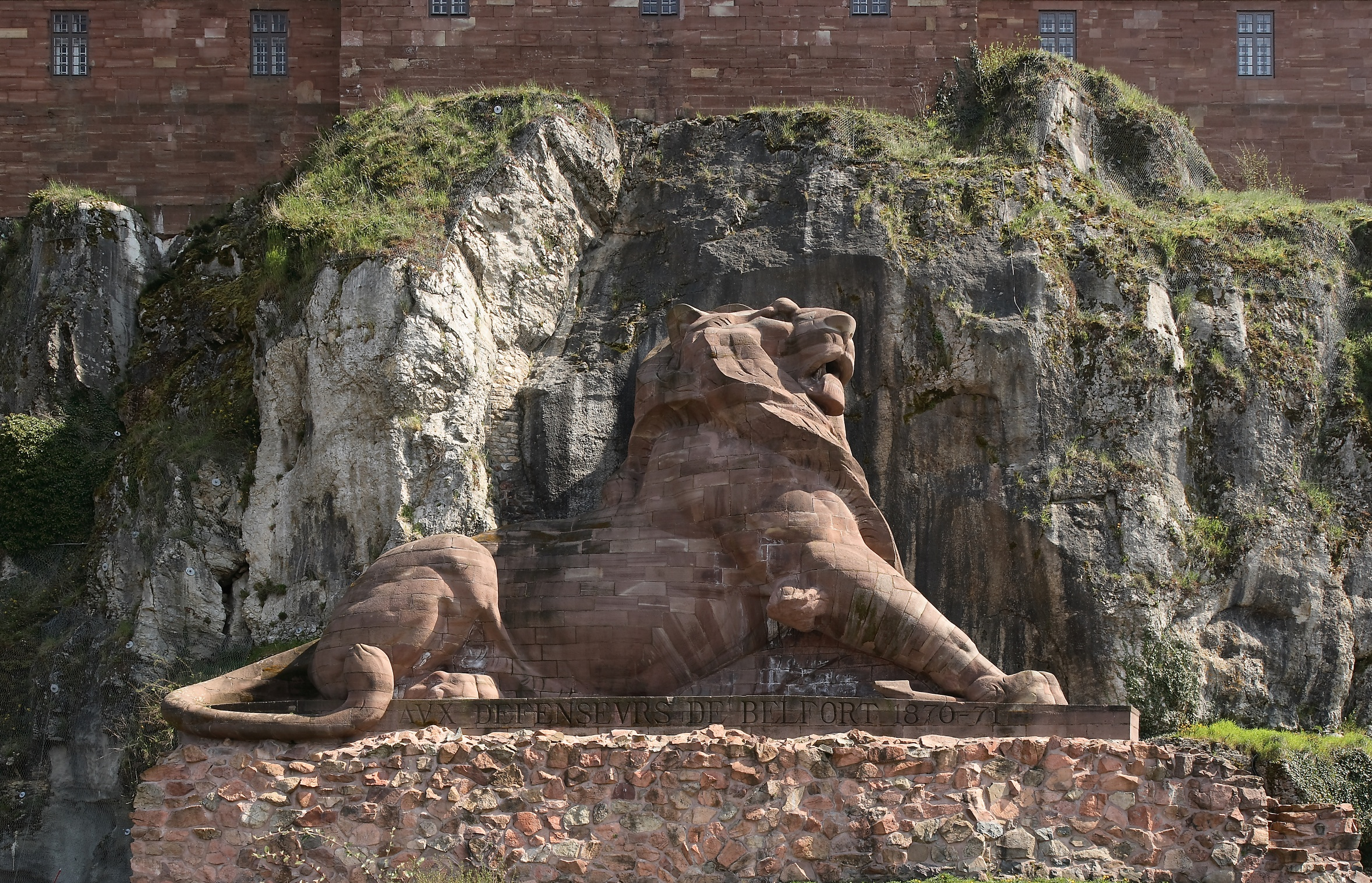 The Lion of Belfort. Belfort, France.